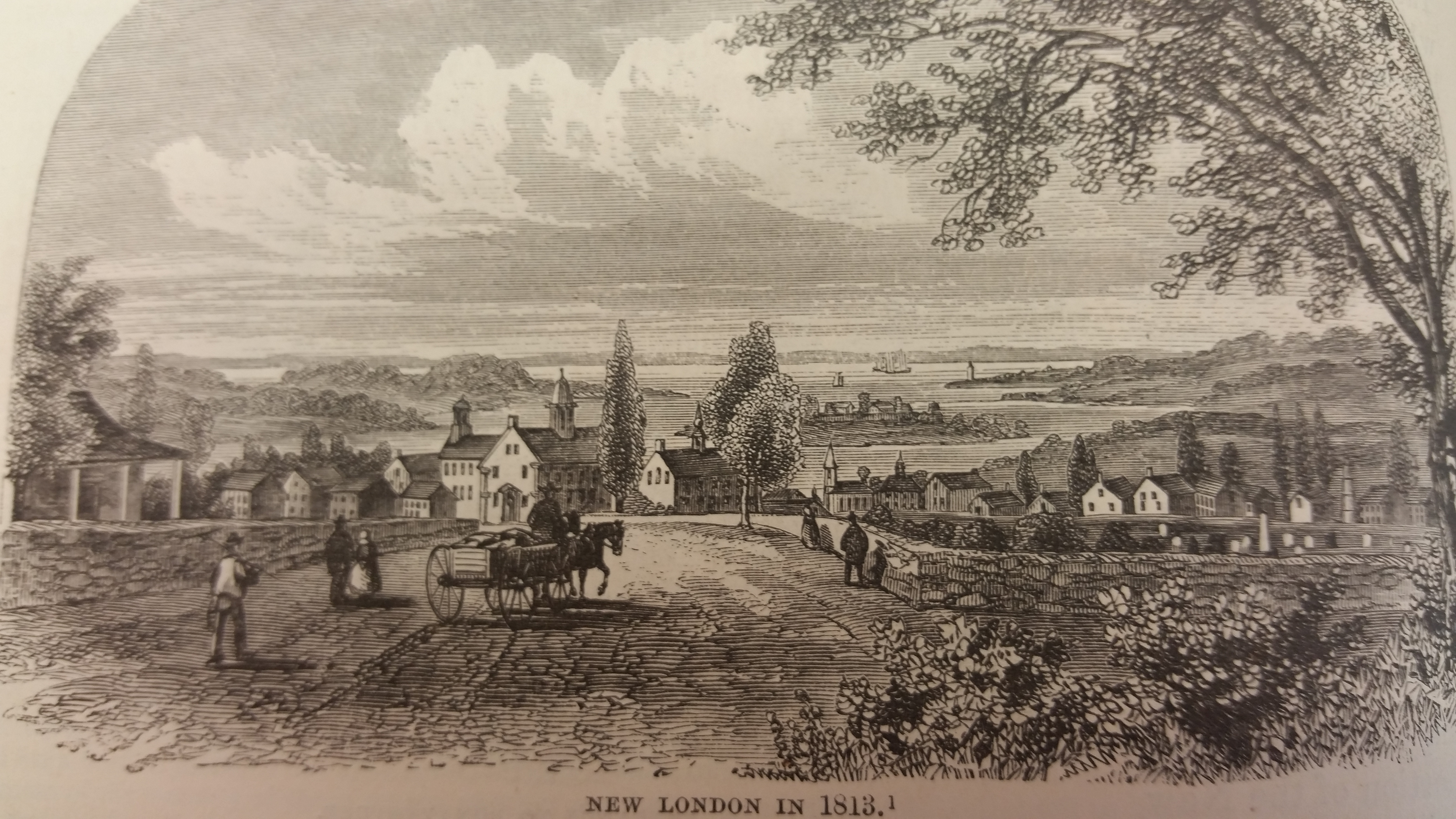 New London